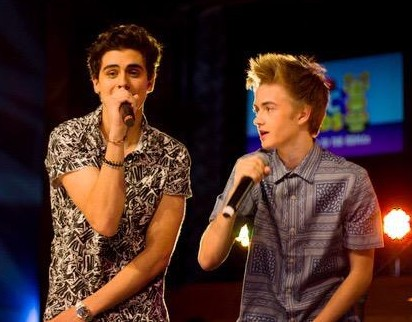 Jack Gilinsky (left) and Jack Johnson (right) of Jack & Jack perform at Radio Disney's 'On The Road To The RDMAs' Live Event at YouTube Space LA on March 25, 2015 in Los Angeles, California.